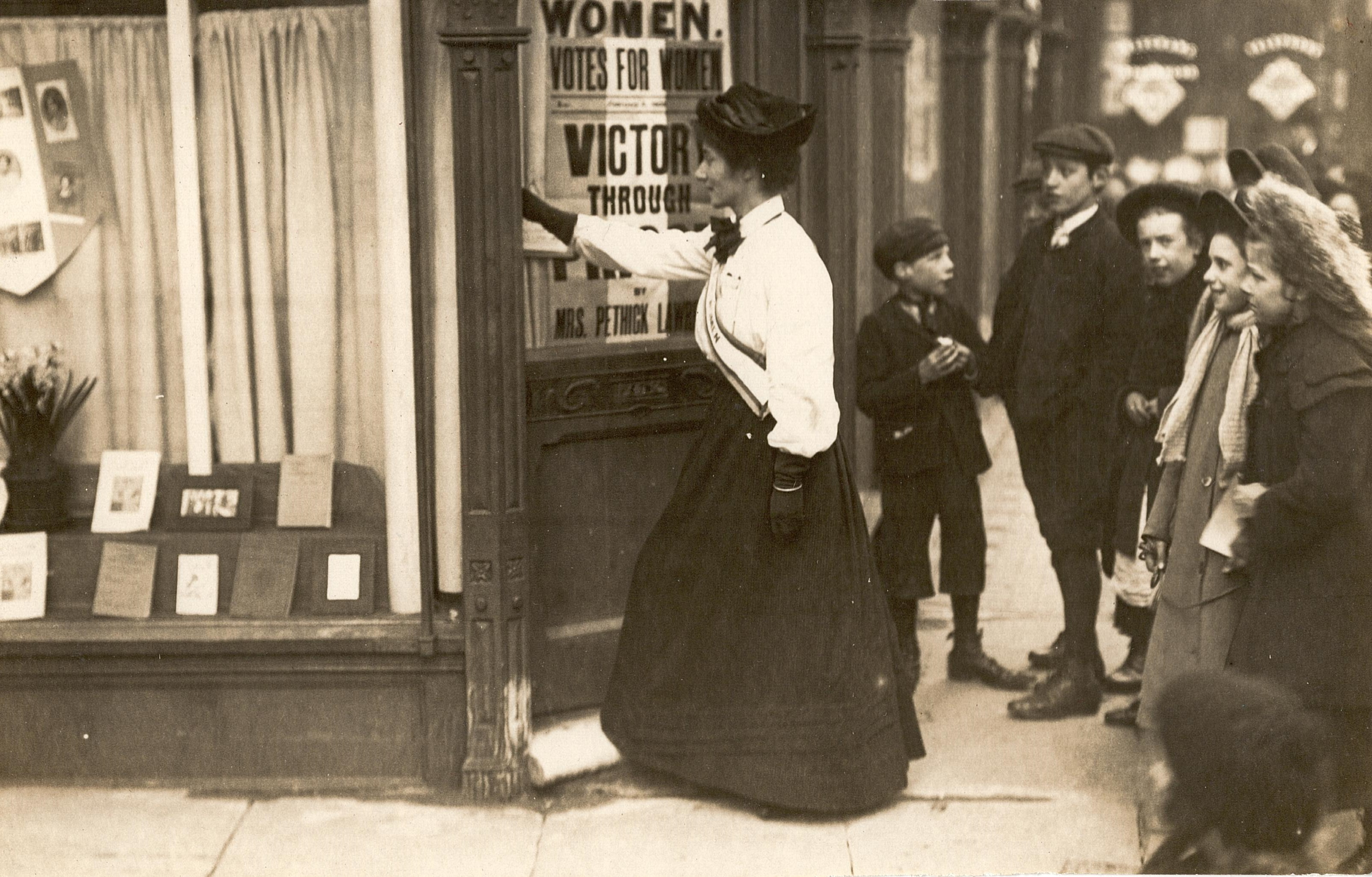 Image of Mary Sinclair entering Kensington Women's Social & Political Union shop, leaflets in shop window, children in the background. TWL.2002.612